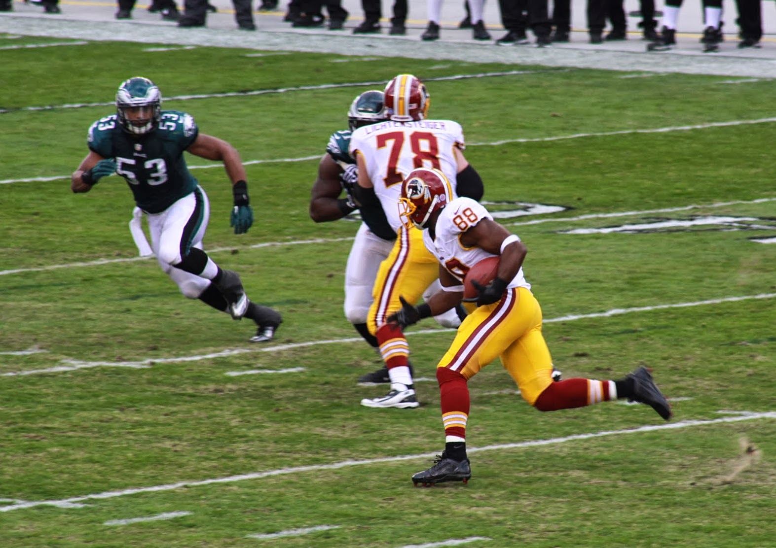 Pierre Garçon runs an end-around during a 2013 loss to the Philadelphia Eagles.